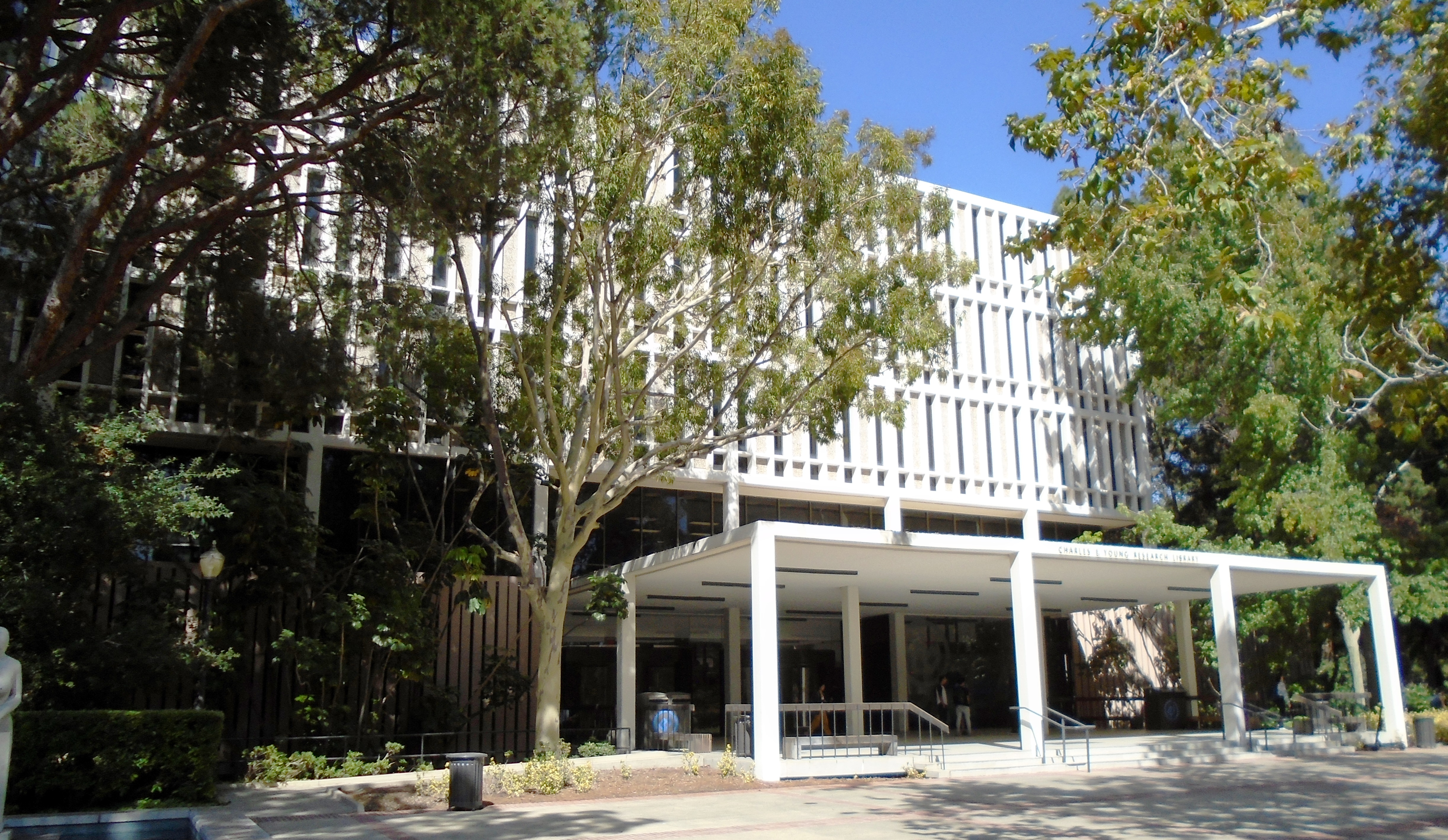 The Charles E. Young Research Library is one of the largest libraries at the University of California, Los Angeles (UCLA). Unlike the College Library which is geared towards undergraduates, this library is meant primarily for faculty and graduate students who wish to conduct research. The library holds resources in the humanities, social sciences, education, public affairs, government information, journals, newspapers, and maps. The eastern half of the building opened in 1964, and the western half in 1970. In 1997 it was named after the university's former chancellor of 29 years, Charles E. Young. The building was designed by architects A. Quincy Jones and Frederick Earl Emmons. The building underwent major internal renovations in 2009 and 2011 designed by Perkins and Will. (Source: UCLA Library page)